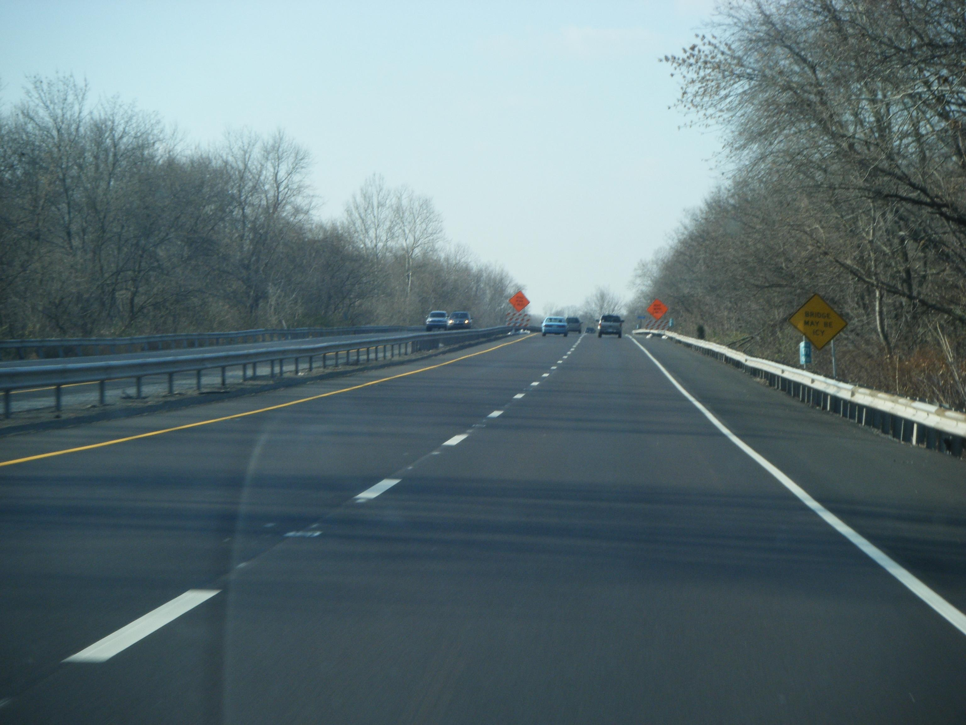 Westbound U.S. Route 422 approaching the crossing of the Schuylkill River west of Pottstown, Pennsylvania.